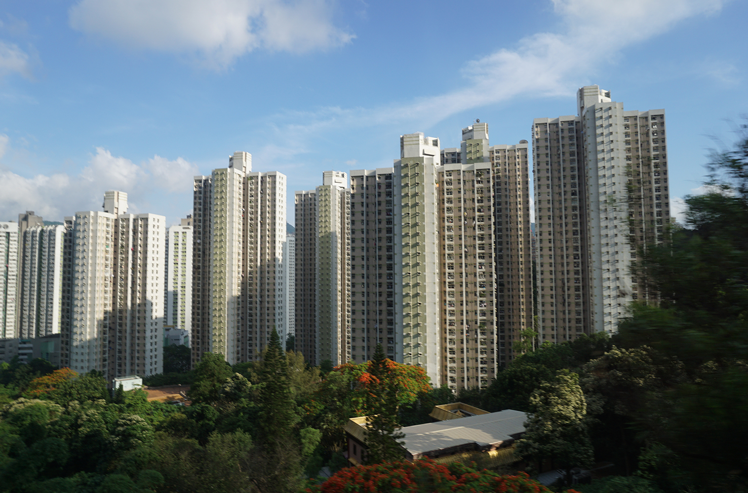 Mei Chung Court in Tai Wai, Hong Kong.